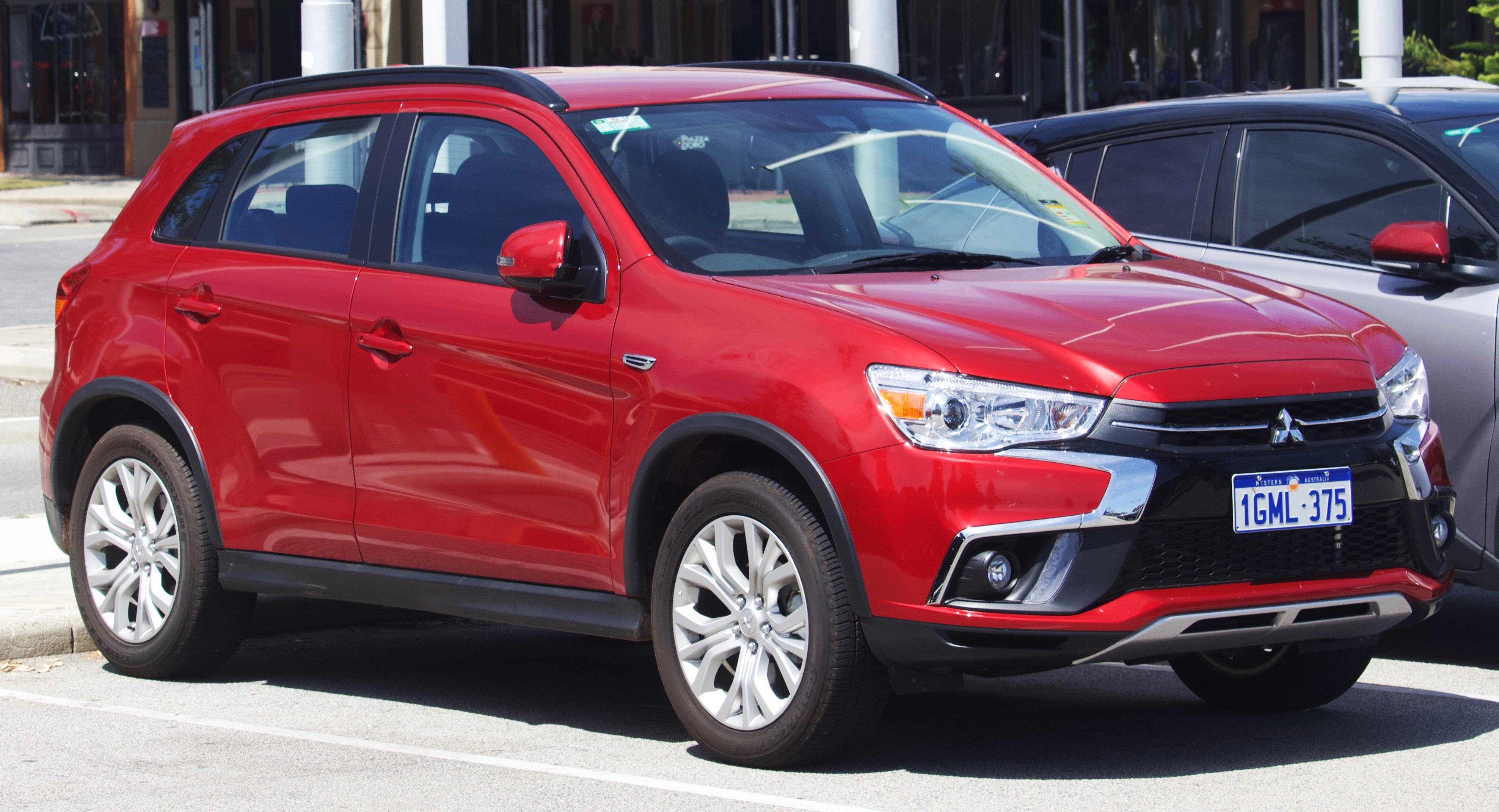 2018 Mitsubishi ASX (XE) ES 2WD wagon. Photographed in Fremantle, Western Australia, Australia.